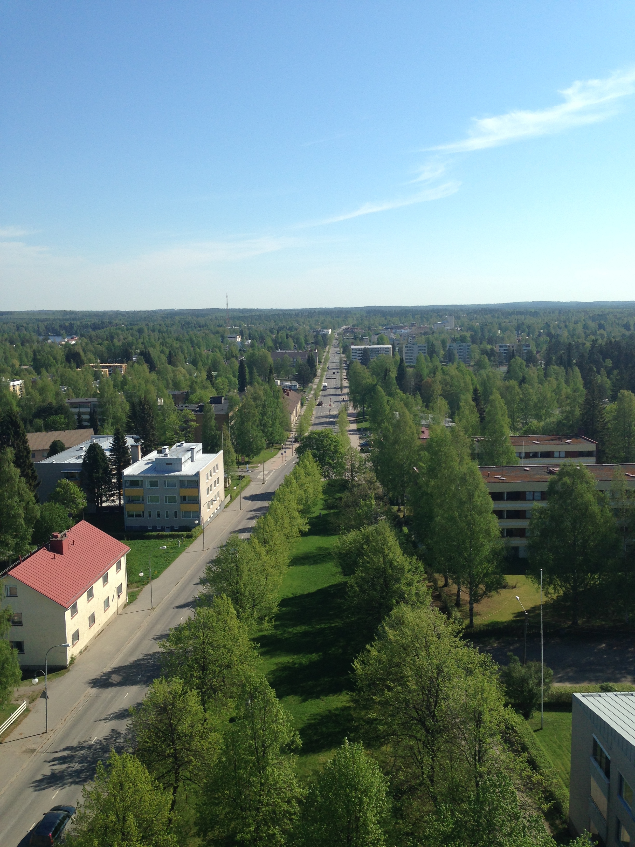 City of Pieksämäki from the water tower.